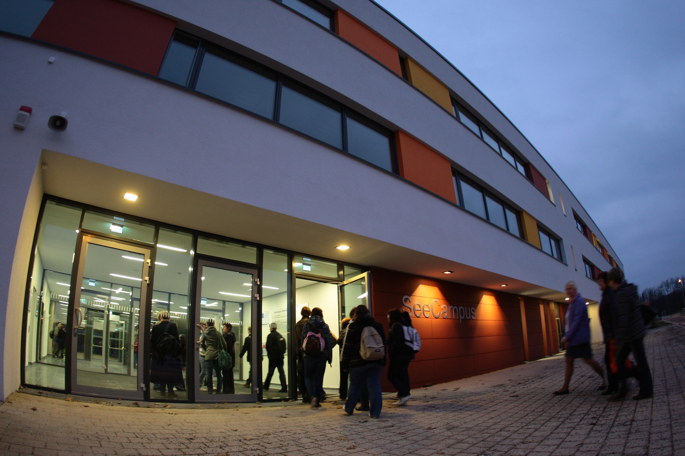 SeeCampus Niederlausitz, Schwarzeide, Germany